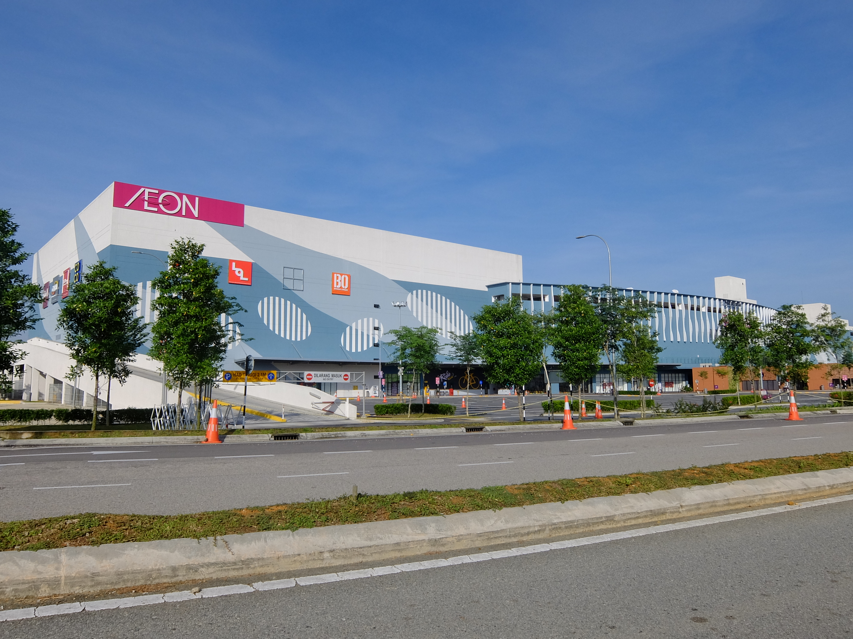 AEON Mall Bandar Dato' Onn, Bandar Dato' Onn, Johor Bahru, Johor, Malaysia